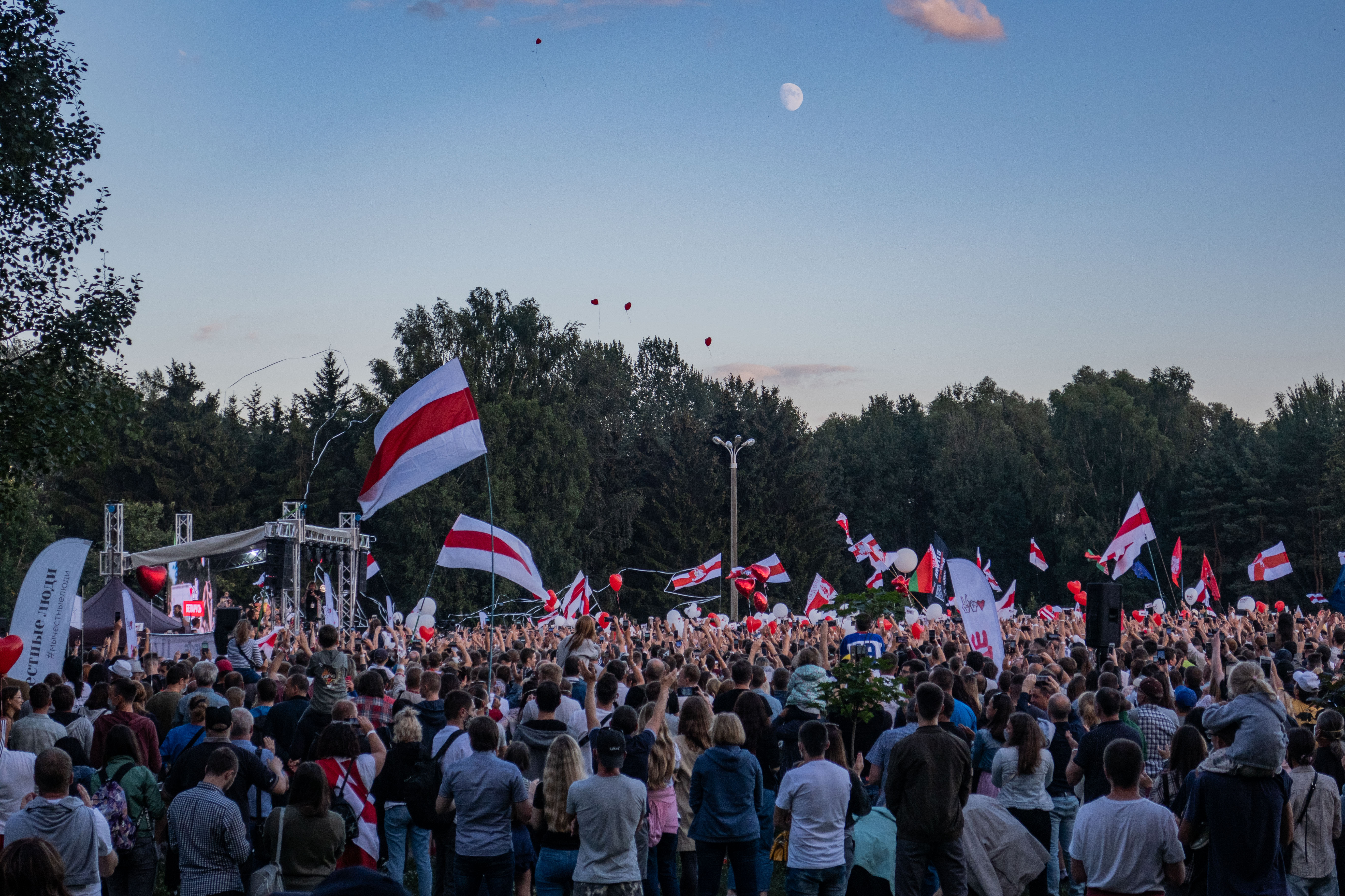 Rally in support of Sviatlana Tsikhanoŭskaya and the joint campaign headquarters. 30 July 2020, Minsk, Belarus